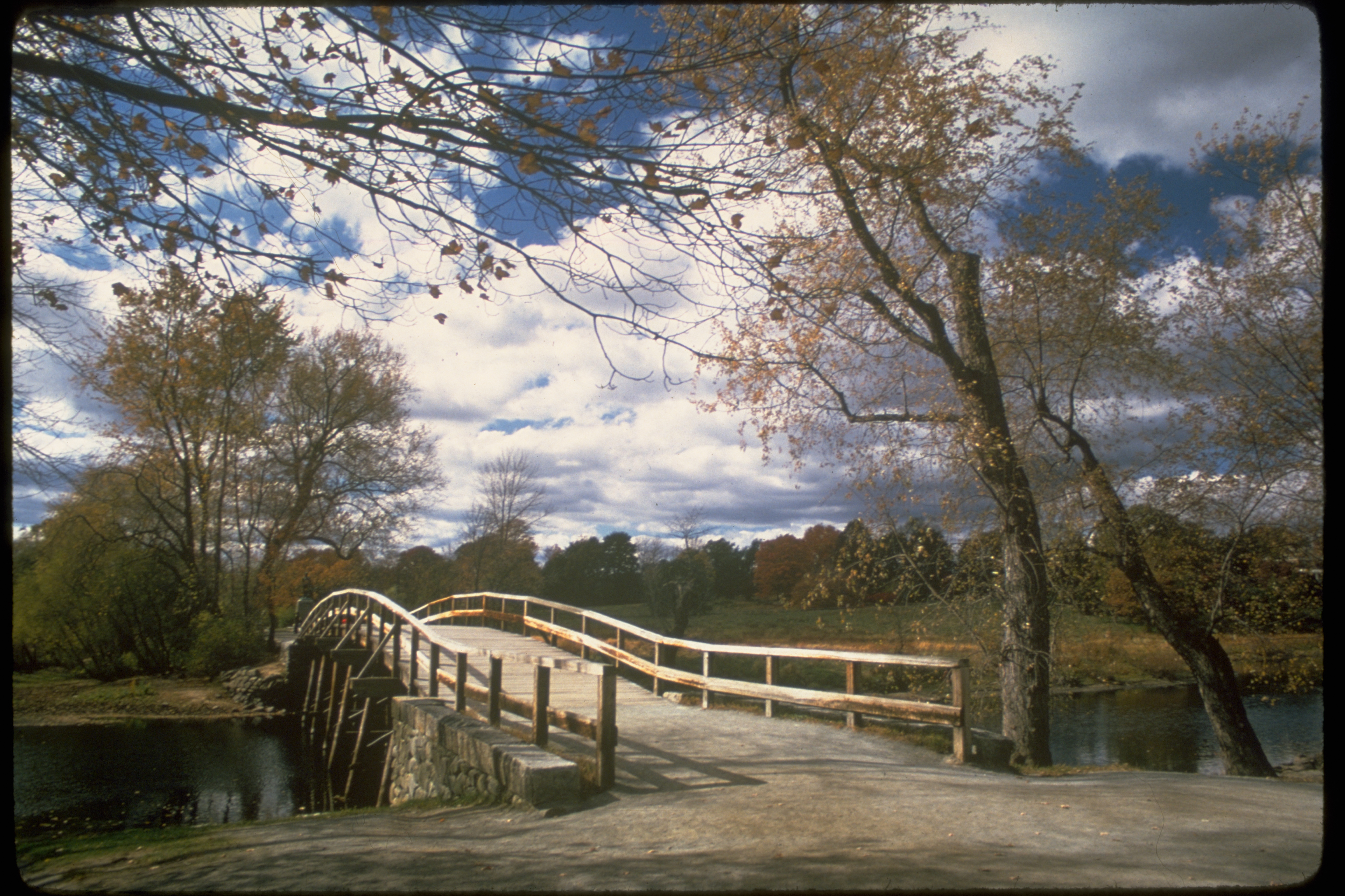 A Revolution begins - A Nation is born. At Minute Man National Historical Park the opening battle of the Revolution is brought to life as visitors explore the battlefields and witness the American revolutionary spirit through the writings of the Concord authors.